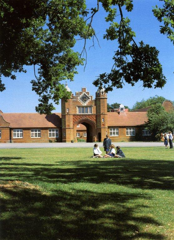 culford prep school